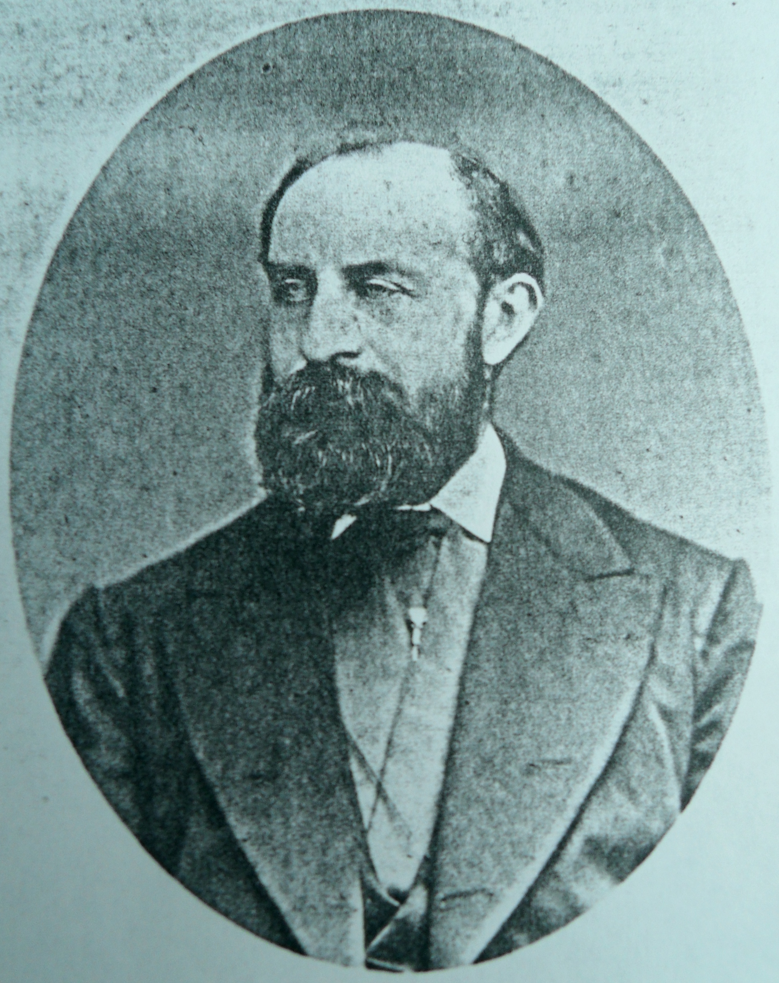 Photo oçf the Belgian 19th C. architect Isidore Alleweireldt.